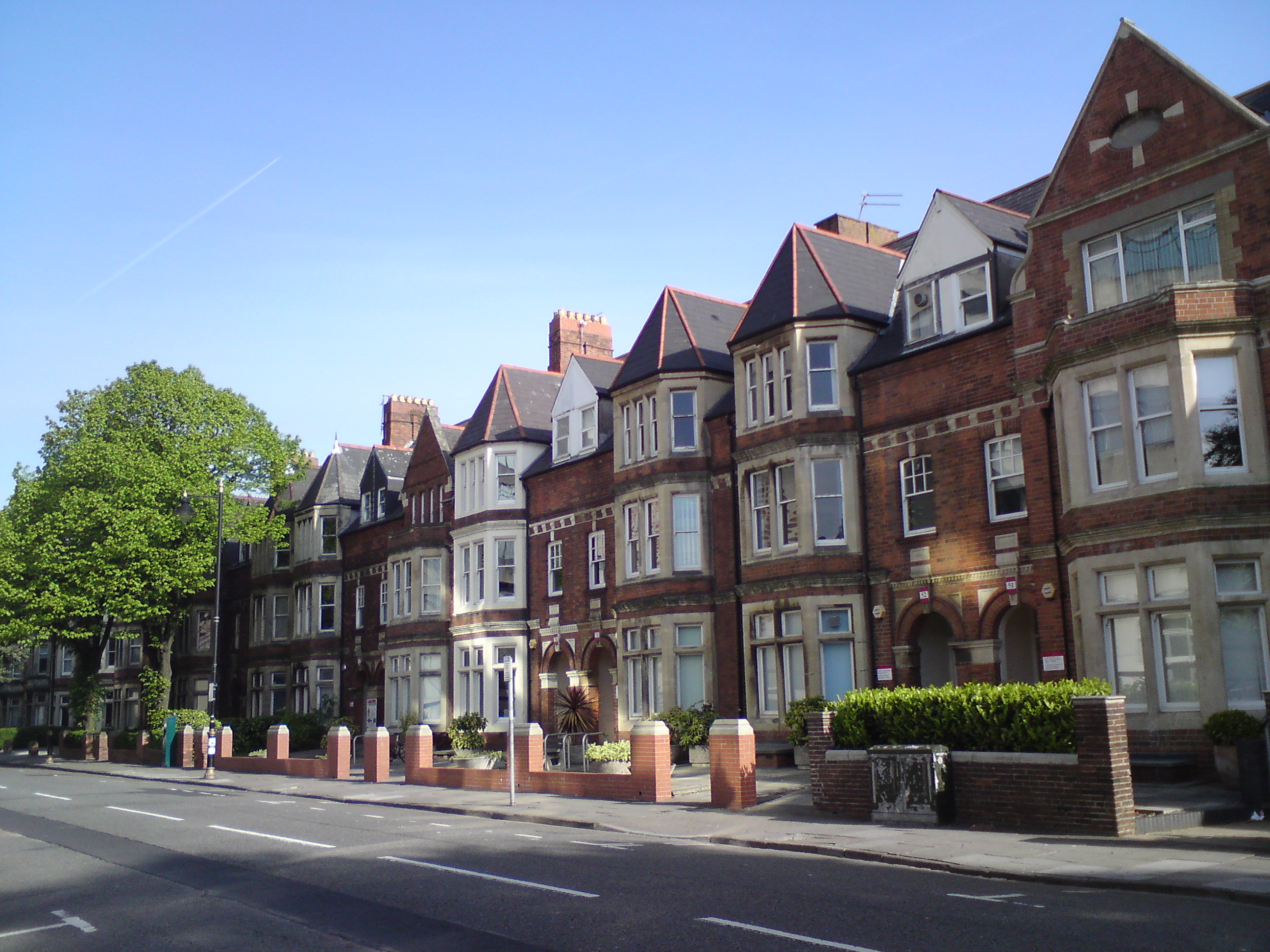 University buildings on Park Place